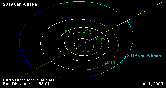 2019 van Albada orbit, and his position on 22 Nov 2009 (NASA Orbit Viewer applet)